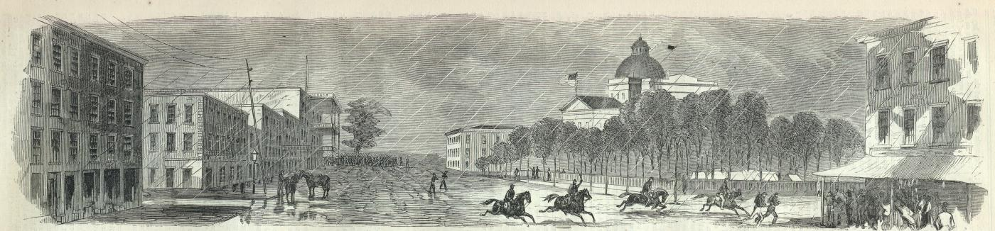 "RAISING THE STARS AND STRIPES OVER THE CAPITOL OF THE STATE OF MISSISSIPPI" from Harper's Weekly, June 20, 1863, p. 392.